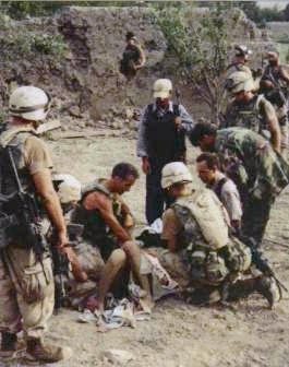 Uncropped photo in Ab Kheyl following July 2002 firefight